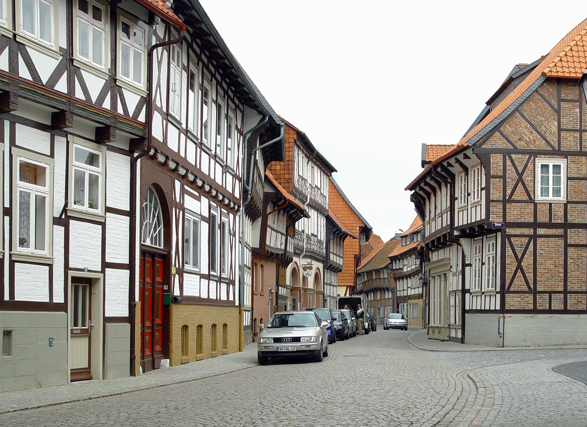 Beschreibung: Hornburg is a city located in Lower Saxony, Germany. Aufnahmedatum: 9. April 2005 Fotograf: ArtMechanic